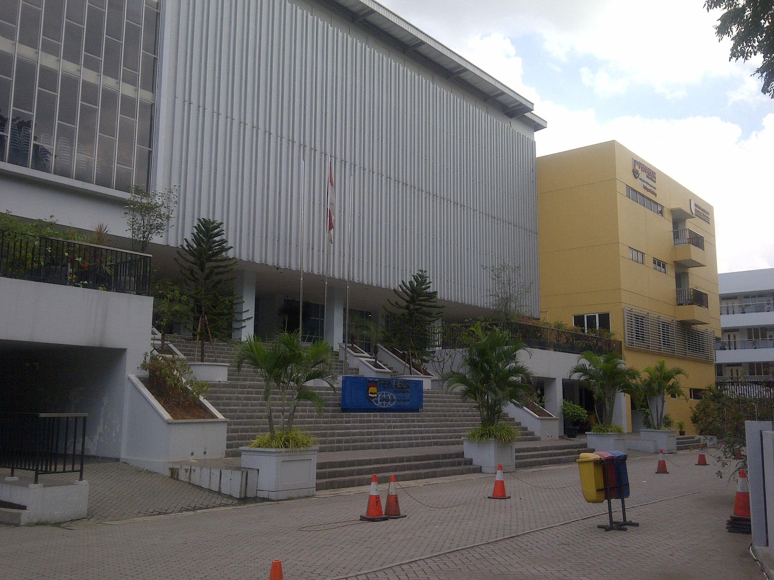 Bangunan Kompleks PENABUR International School Kelapa Gading, Jakarta